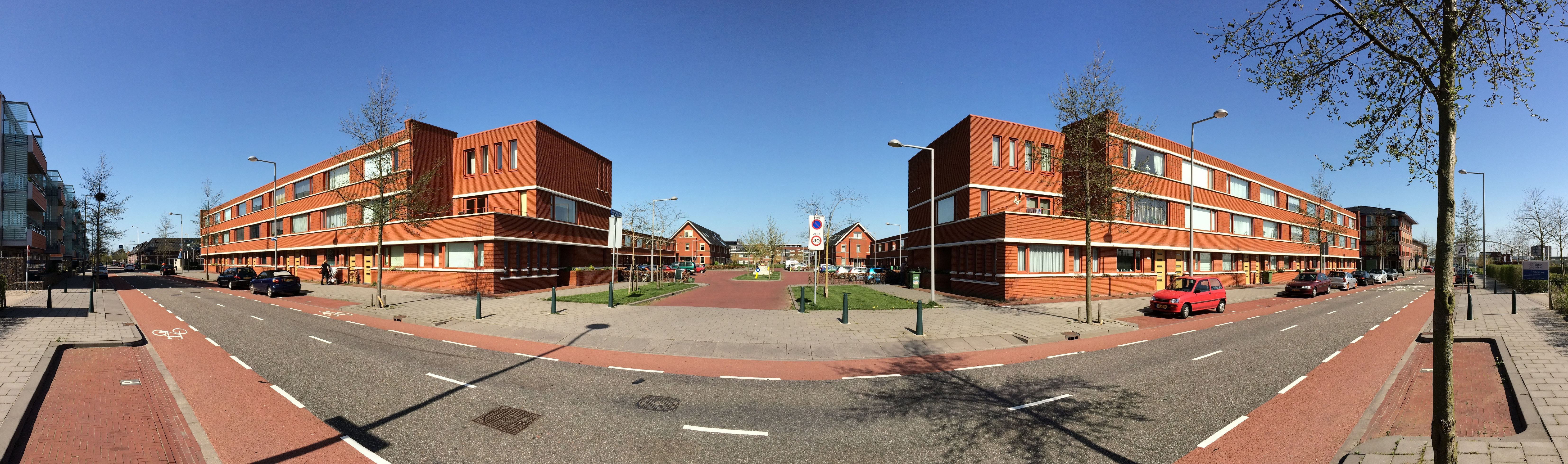 The Vrouw Avenweg (Woman Aven Road) in The Hague, Netherlands.